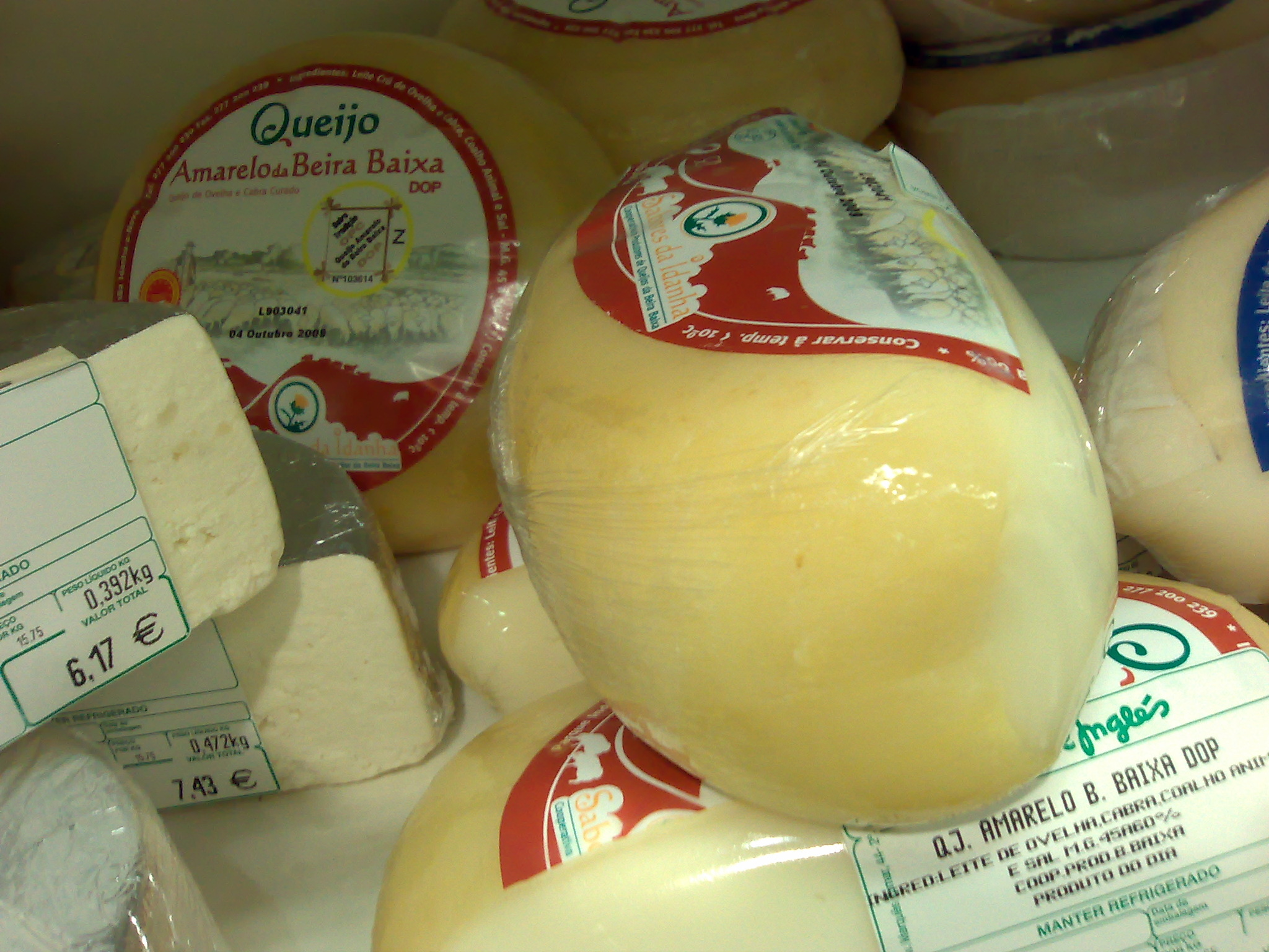 Queijo amarelo da Beira Baixa, a portuguese cheese.